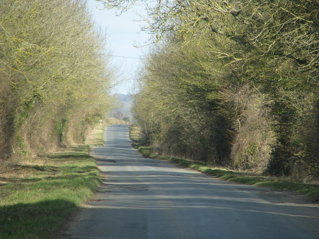 The modern road follows the line of Akeman Street